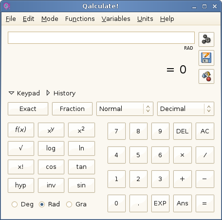 Screenshot of Qalculate-GTK v0.9.4 running on GNOME with MurrinaGilouche GTK+ theme (Murrine GTK+ Engine), standard GNOME 2.16 icons and Gilouche Metacity theme.System information: Gentoo i386-pc-linuc-gnu kernel linux-2.6.18-gentoo-r5. GNOME version 2.16.2, GTK+ 2.10.6, Murrine GTK+ engine version 0.31. libqalculate version 0.9.4, Qalculate-GTK version 0.9.4.